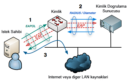 Diagram showing protocols involved in wired 802.1X authentication Turkish version.